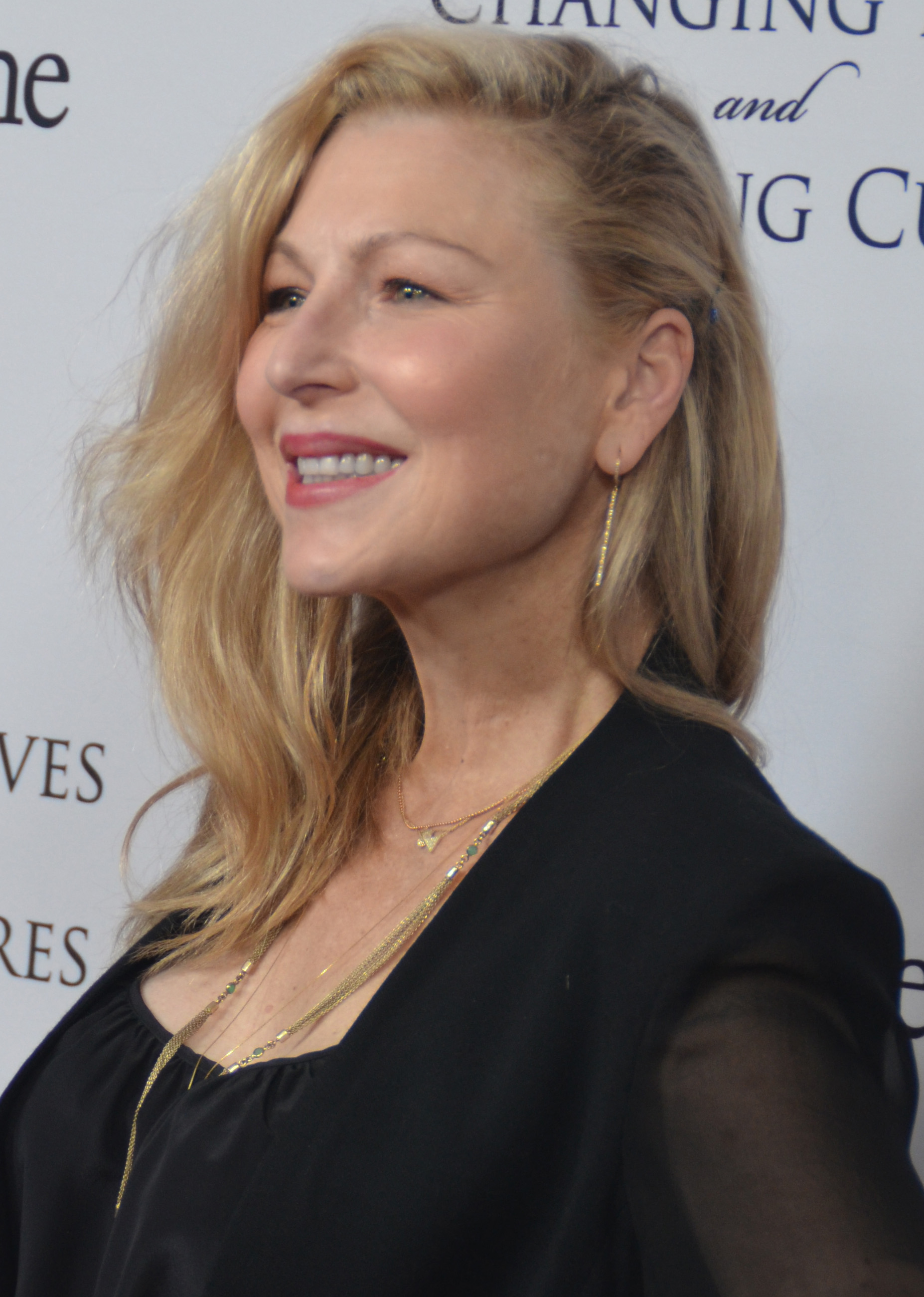 Tatum O'Neal at the USC's Changing Lives and Creating Cures Gala at the Beverly Wilshire Hotel on November 20, 2014